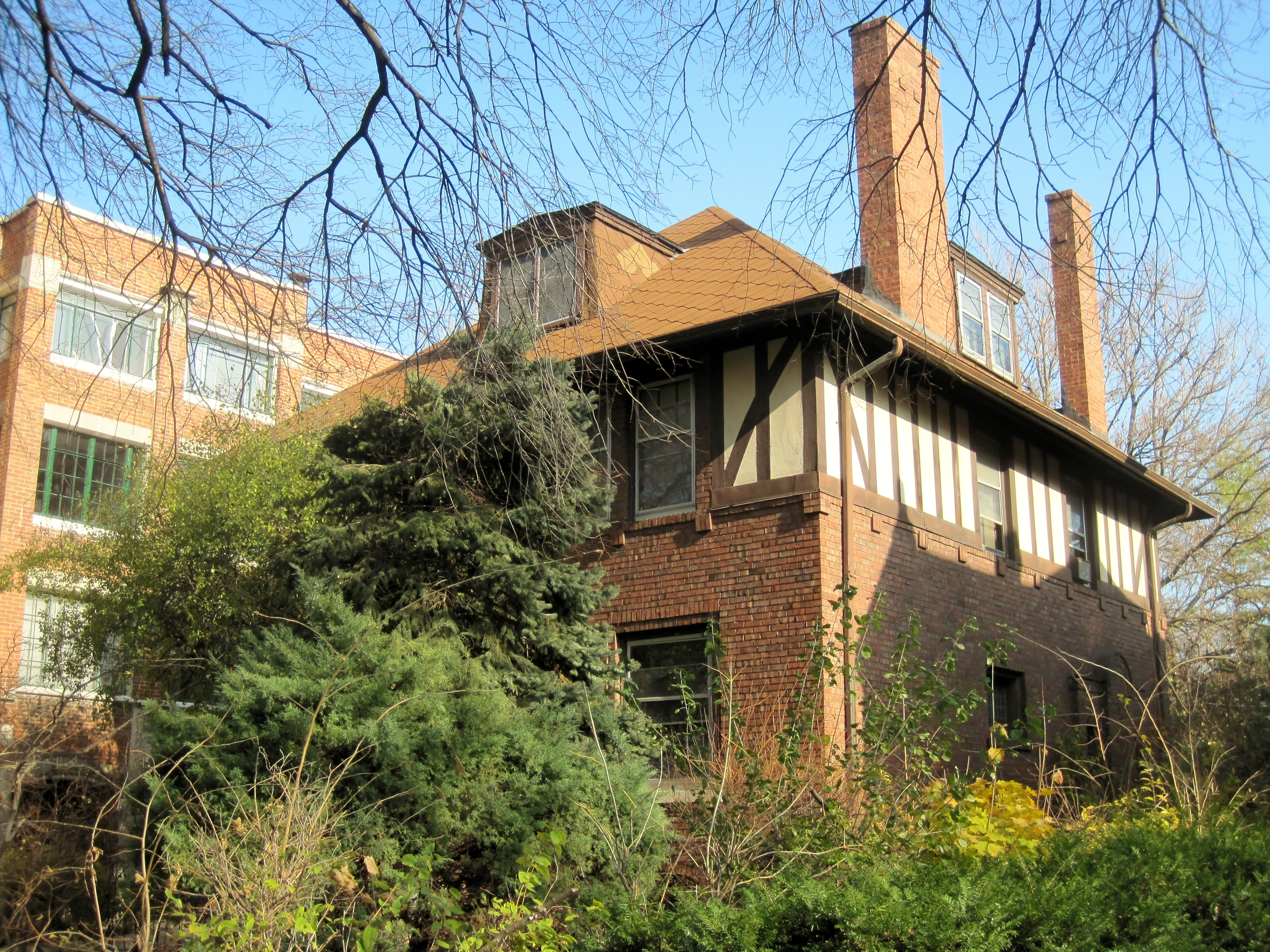 Heinrich Maschke House in Chicago